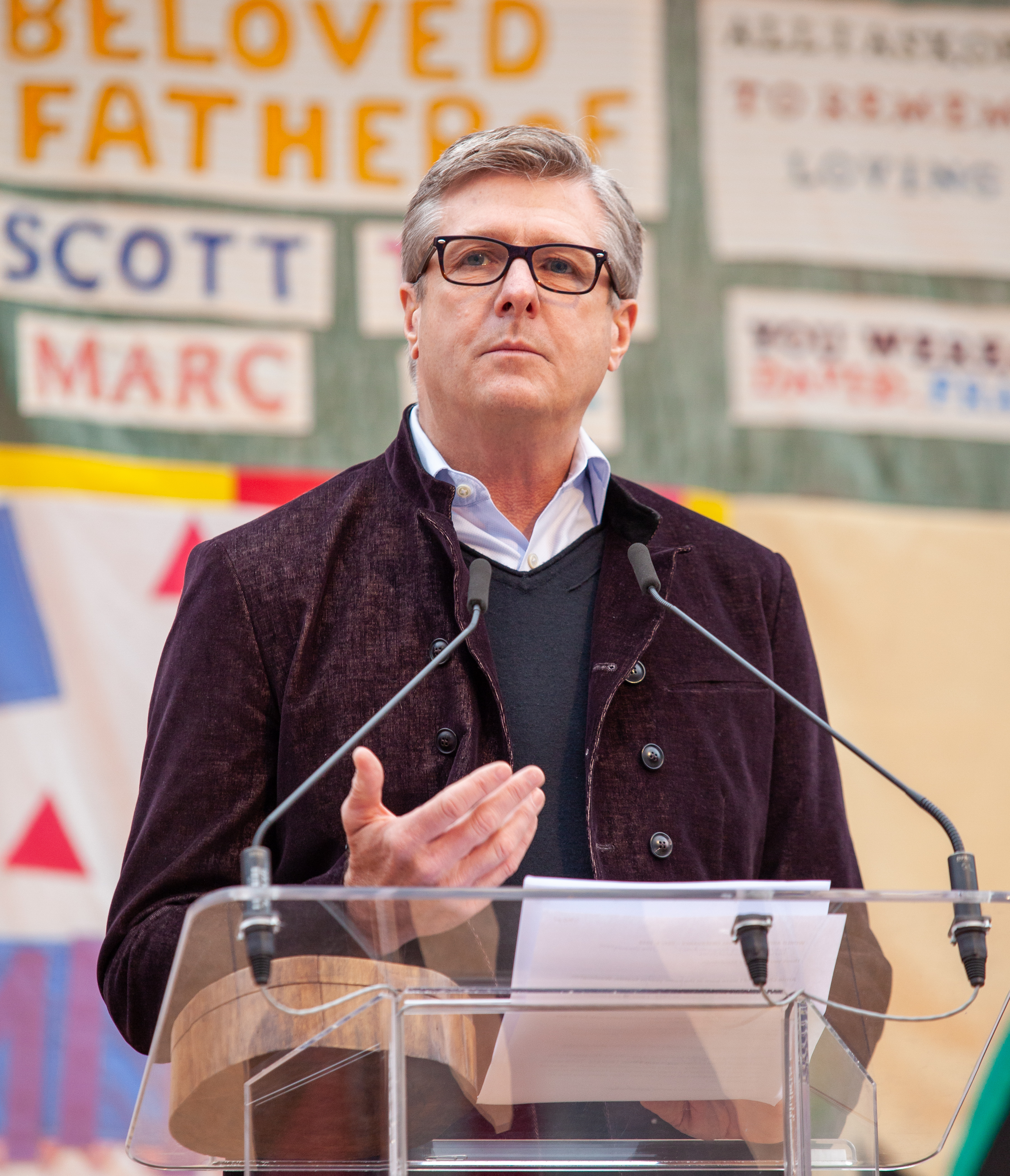 National Basketball Association executive Rick Welts speaks at the National AIDS Memorial on World AIDS Day 2019.